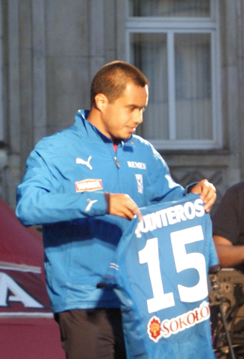 Henry Quinteros - football player